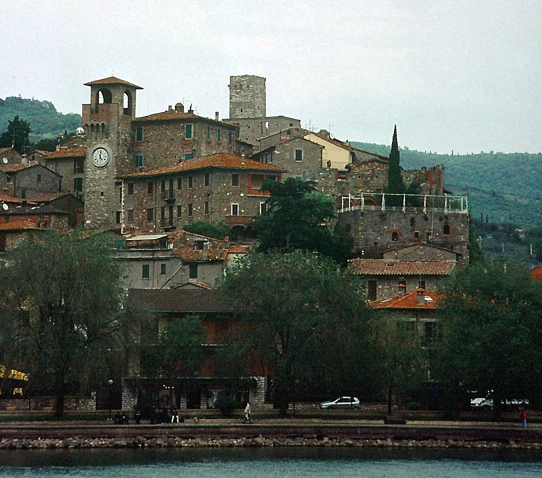 rework of passignano.JPG